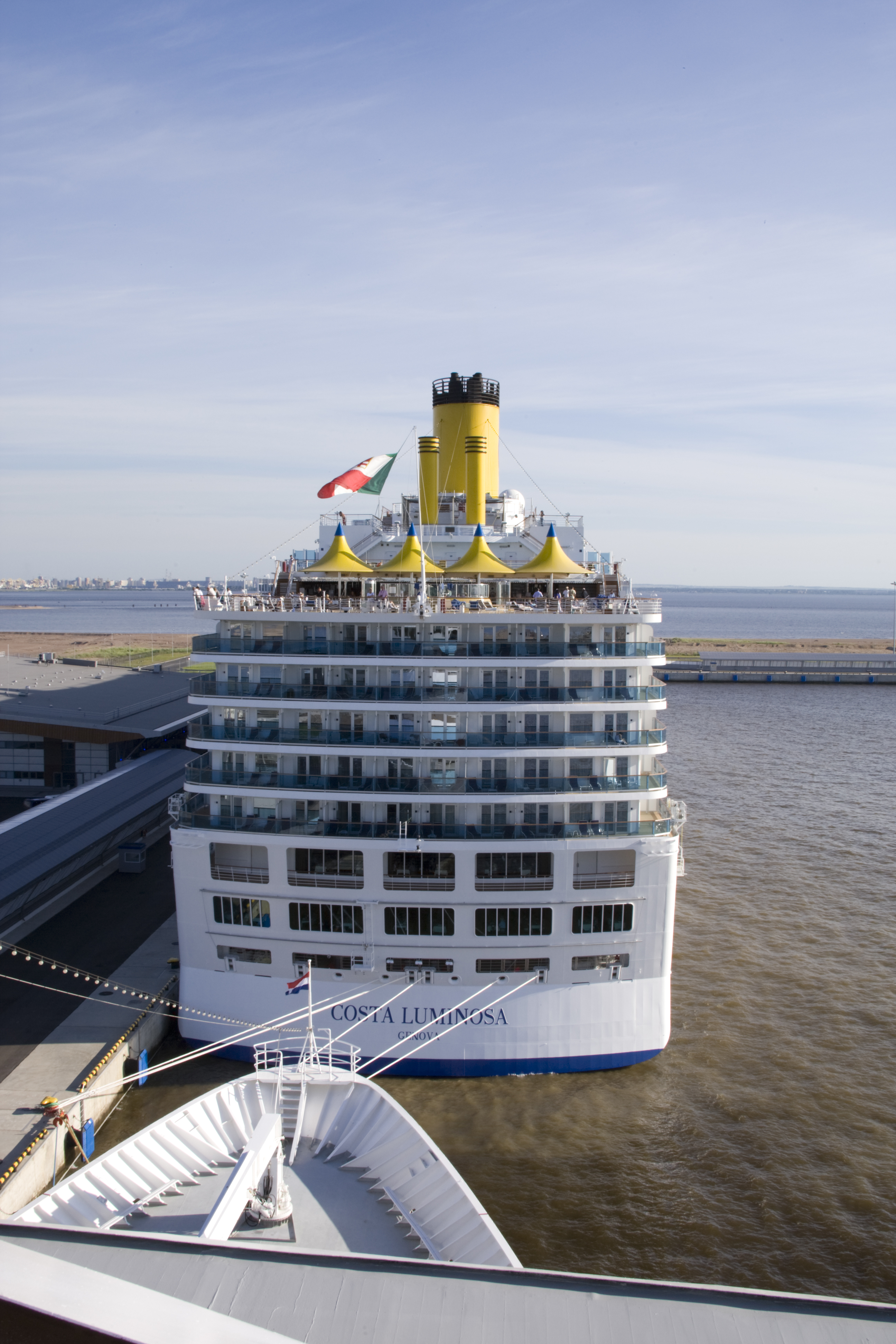 Costa Luminosa in St Petersburg, Russia, harbor, July 2010